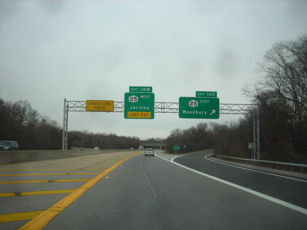 New York State Route 135 at the junction with NY 25A (exit 14E) in Syosset.